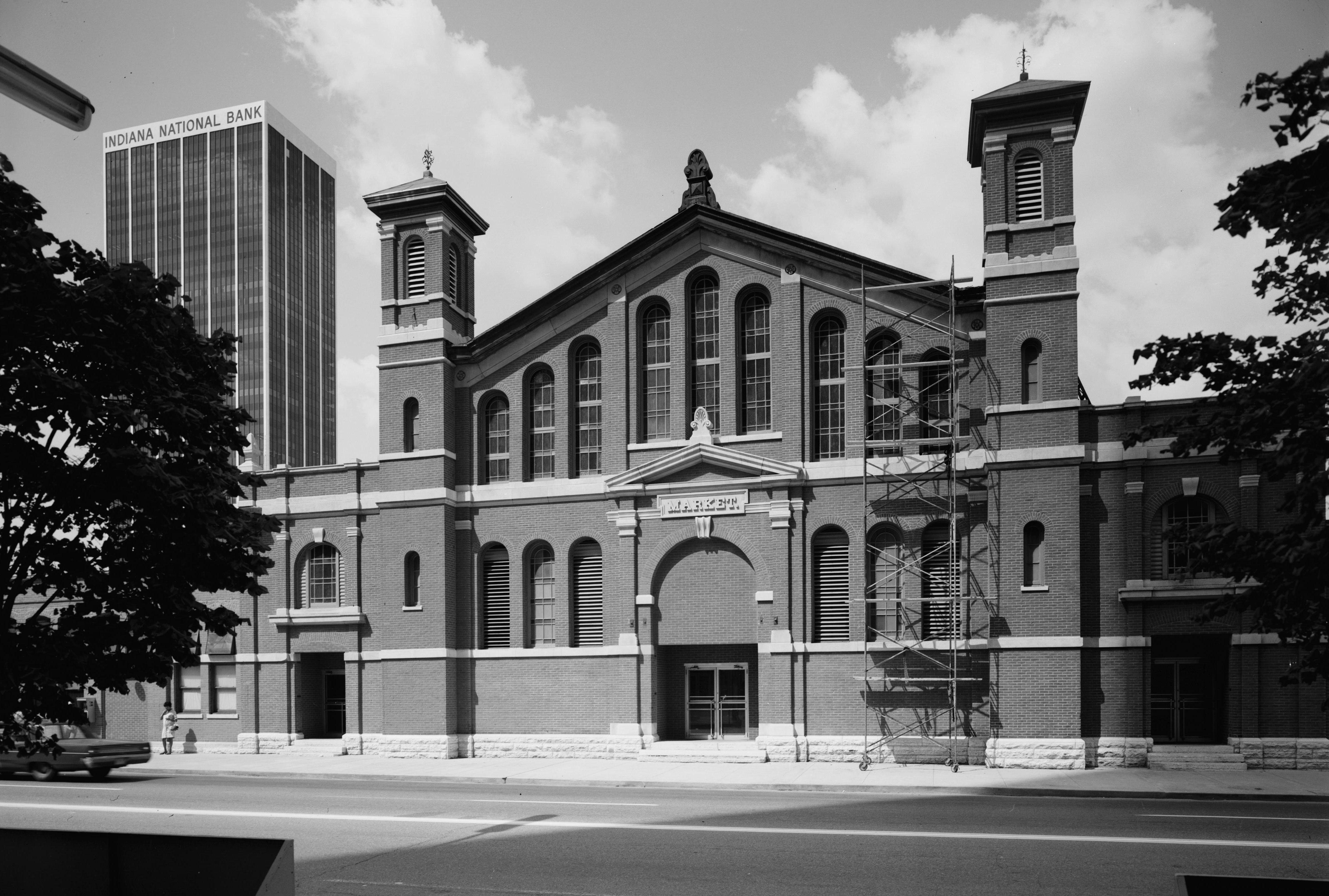 Front of City Market, located at 222 E. Market Street in Indianapolis, Indiana, United States. Built in 1886, it is listed on the National Register of Historic Places.